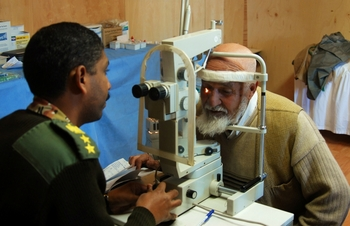 BAGRAM, Afghanistan - Egyptian Col. Ehab Foad, an ophthalmology consultant, checks a patient’s eye for cataracts and other abnormalities at the Egyptian Field Hospital. The Egyptian Field Hospital offers medical services for Afghan citizens.